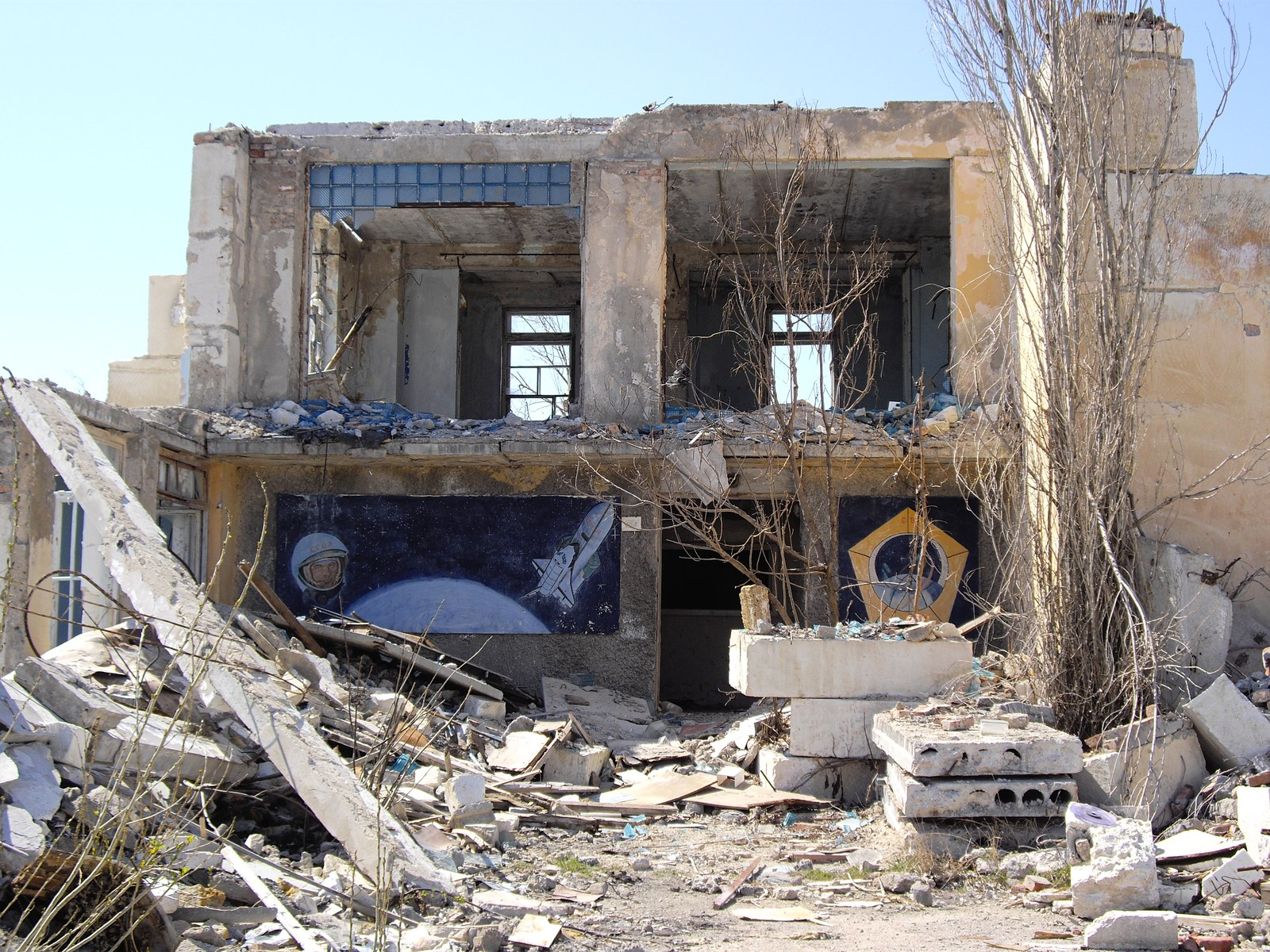 The dismantled ruins of a building at the Simferopol Mission Control Centre. This building housed the control center of the Lunokhod lunar rovers.